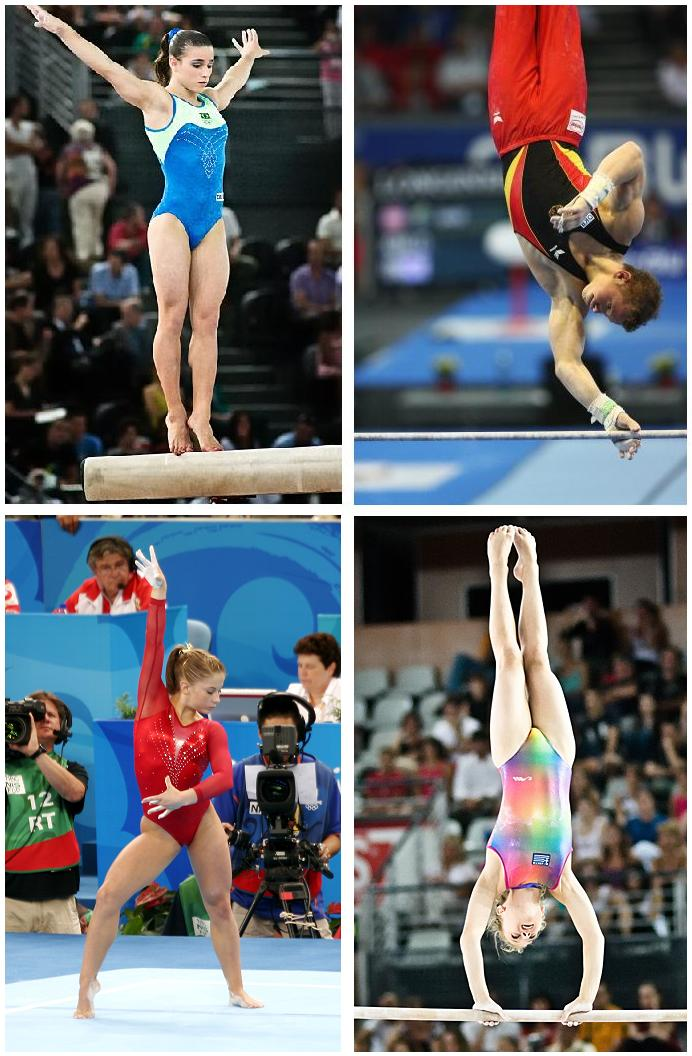 Jade Barbosa (b. 1991) at the Mediterraneo Gym Cup July 5th 2008 in Rome